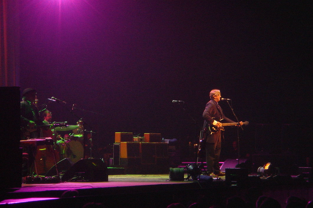 TBoneBurnett performing a solo on stage at Birmingham's NIA as part of a concert by Alison Krauss and Robert Plant